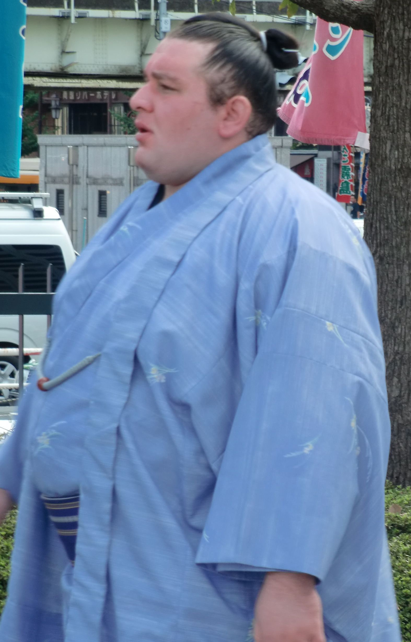 taken at 2010 Sep tournament